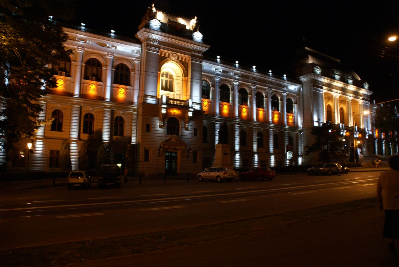 "Alexandru Ioan Cuza" University of Iaşi